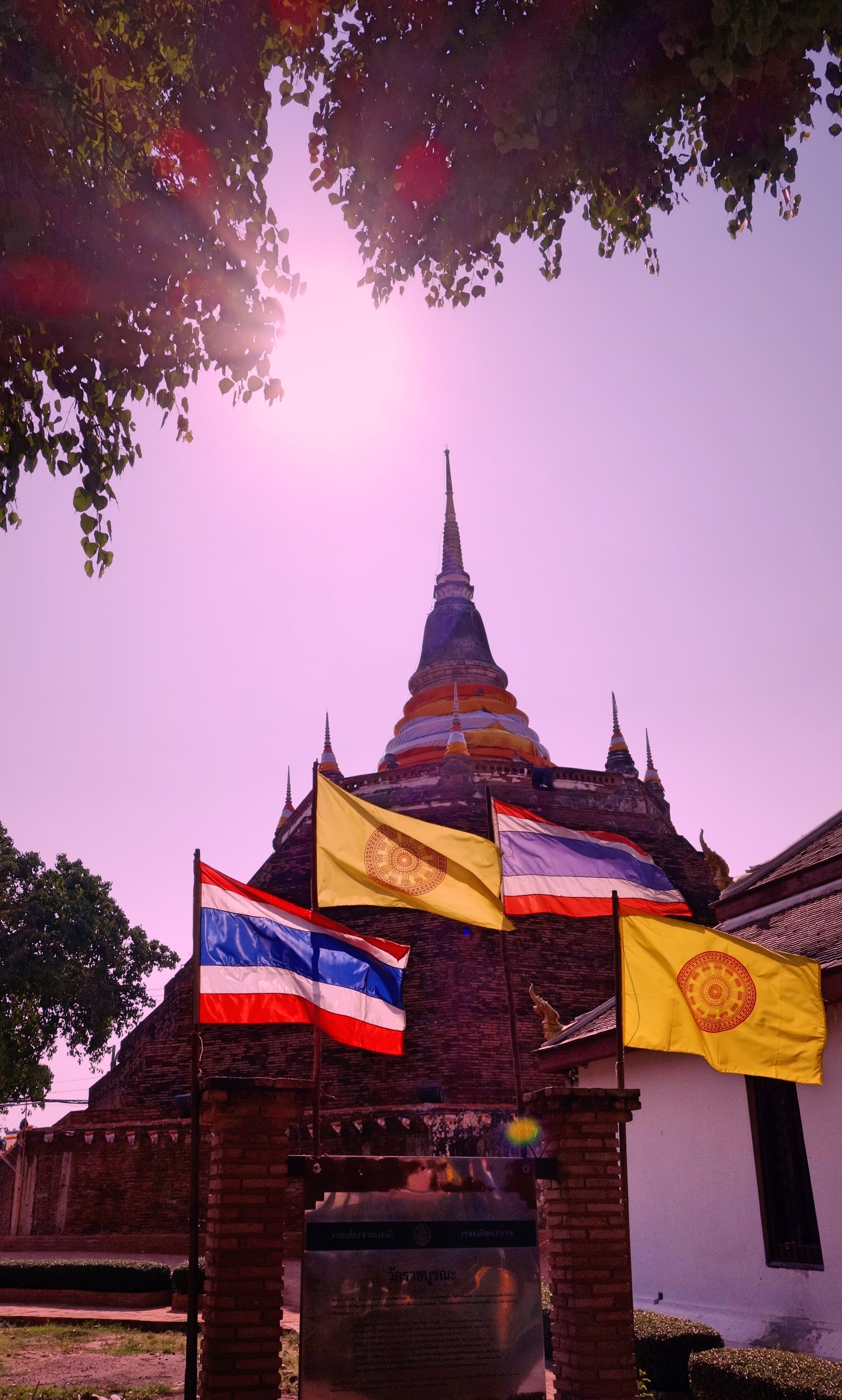 วัดราชบูรณะ